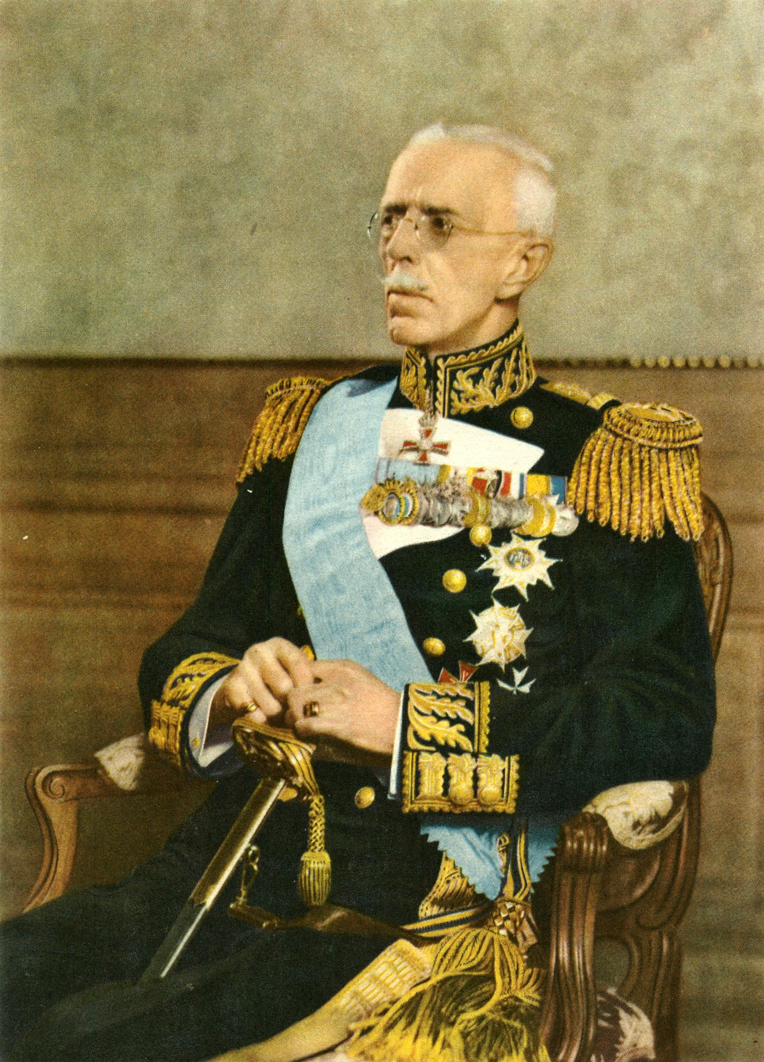 King Gustav V of Sweden (1858-1950).